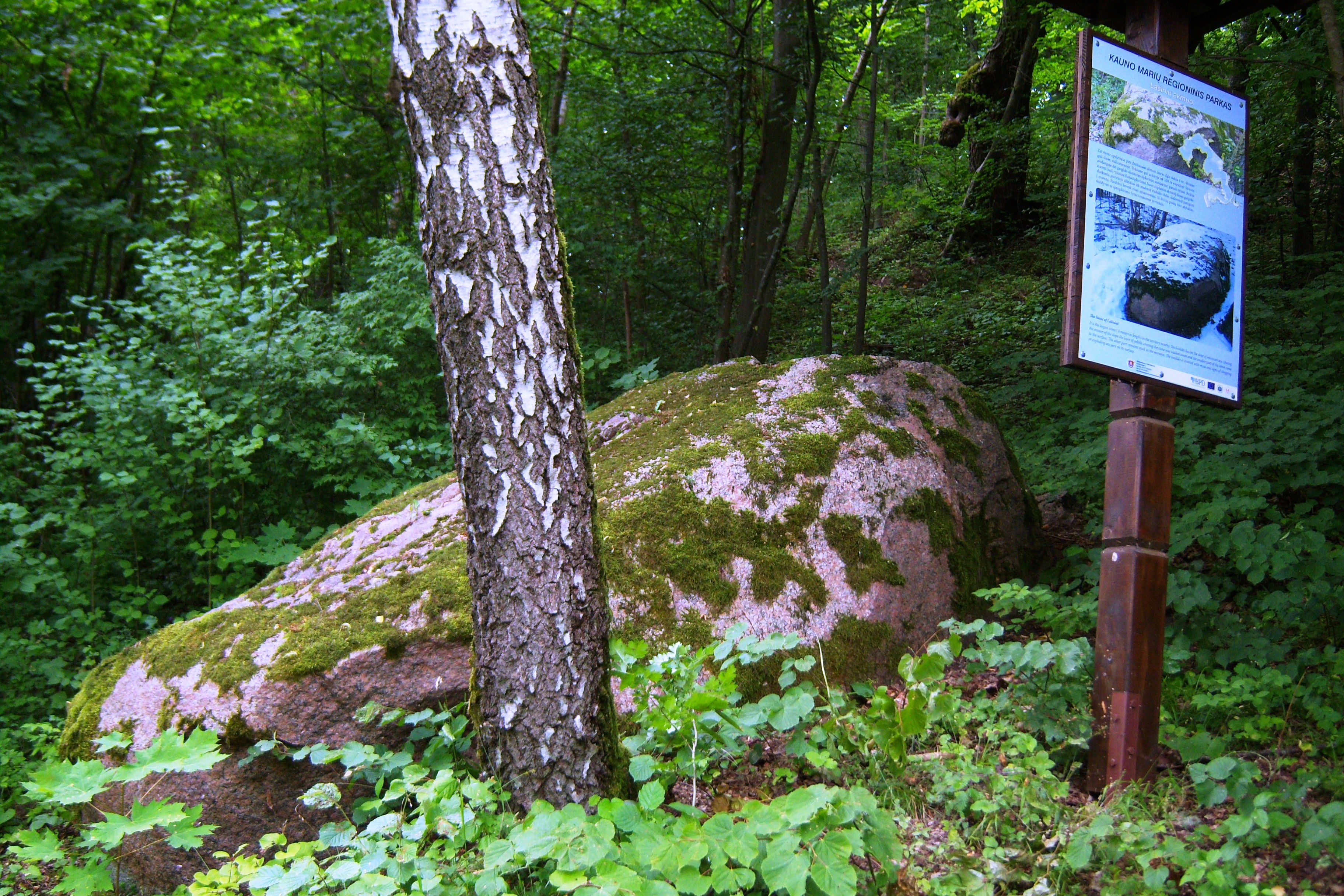 Boulder of Lašinių near Strėva River, Kaišiadorys district, Lithuania